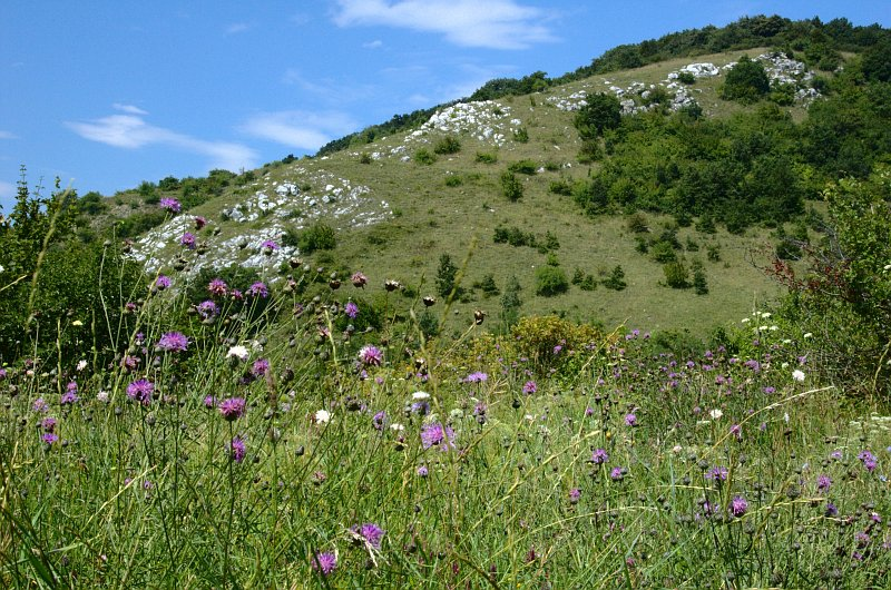 Devínska Kobyla